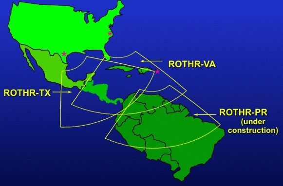 Range of the Relocatable Over-the-Horizon Radar stations of the US Navy